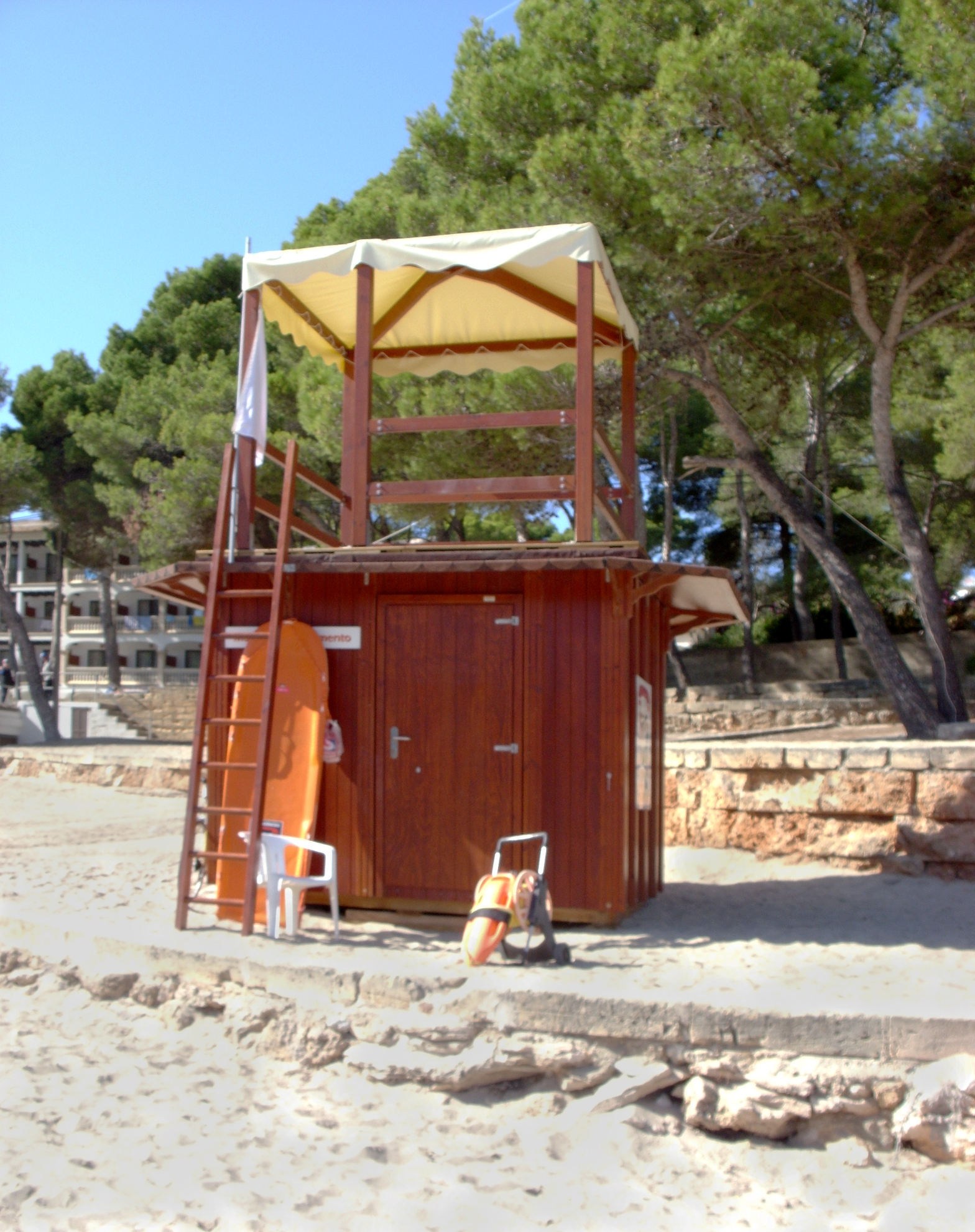 The emergency cottage of the beach Sa Font de sa Cala, municipality Capdepera, Majorca